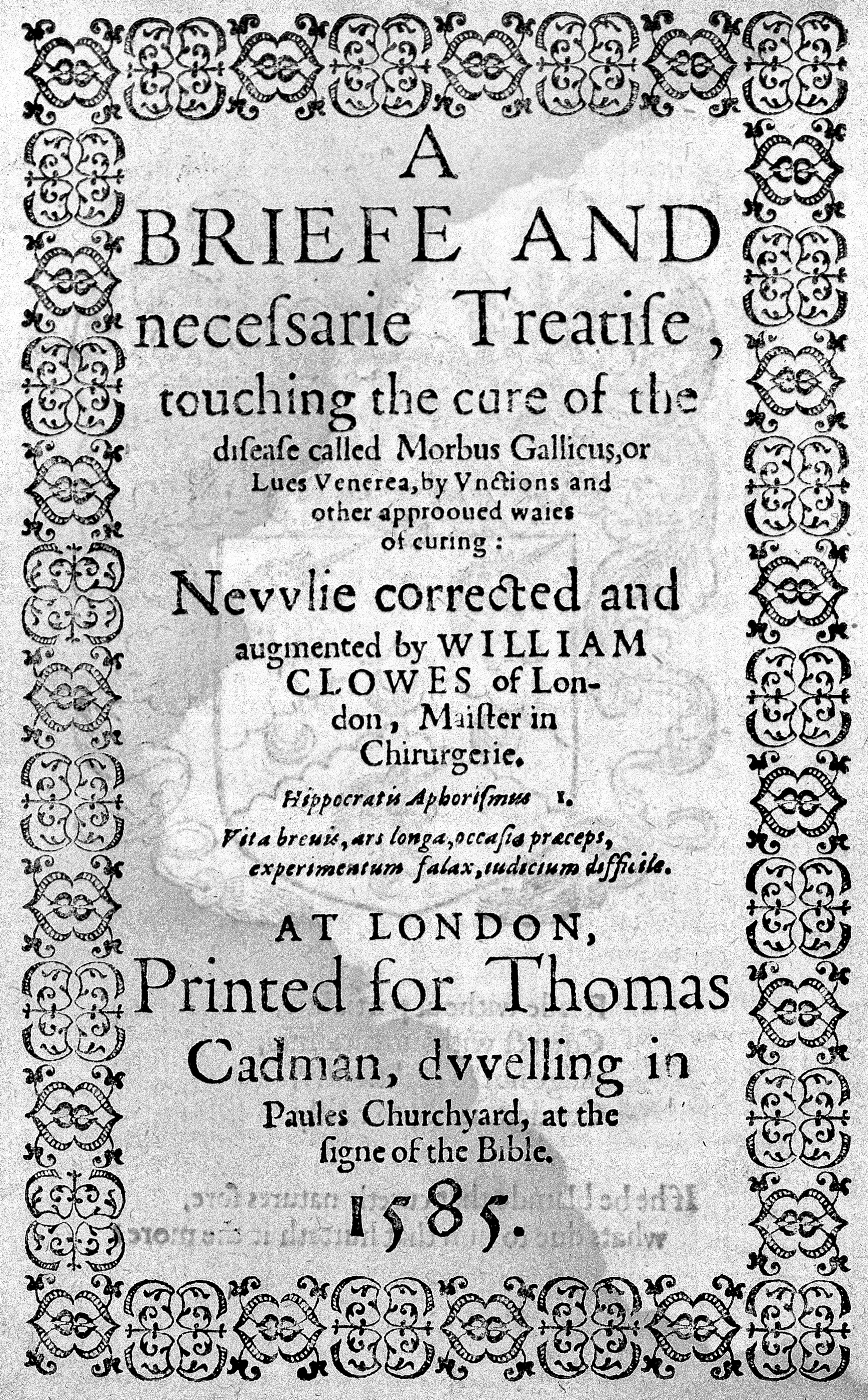 Wellcome Images Keywords: William Clowes